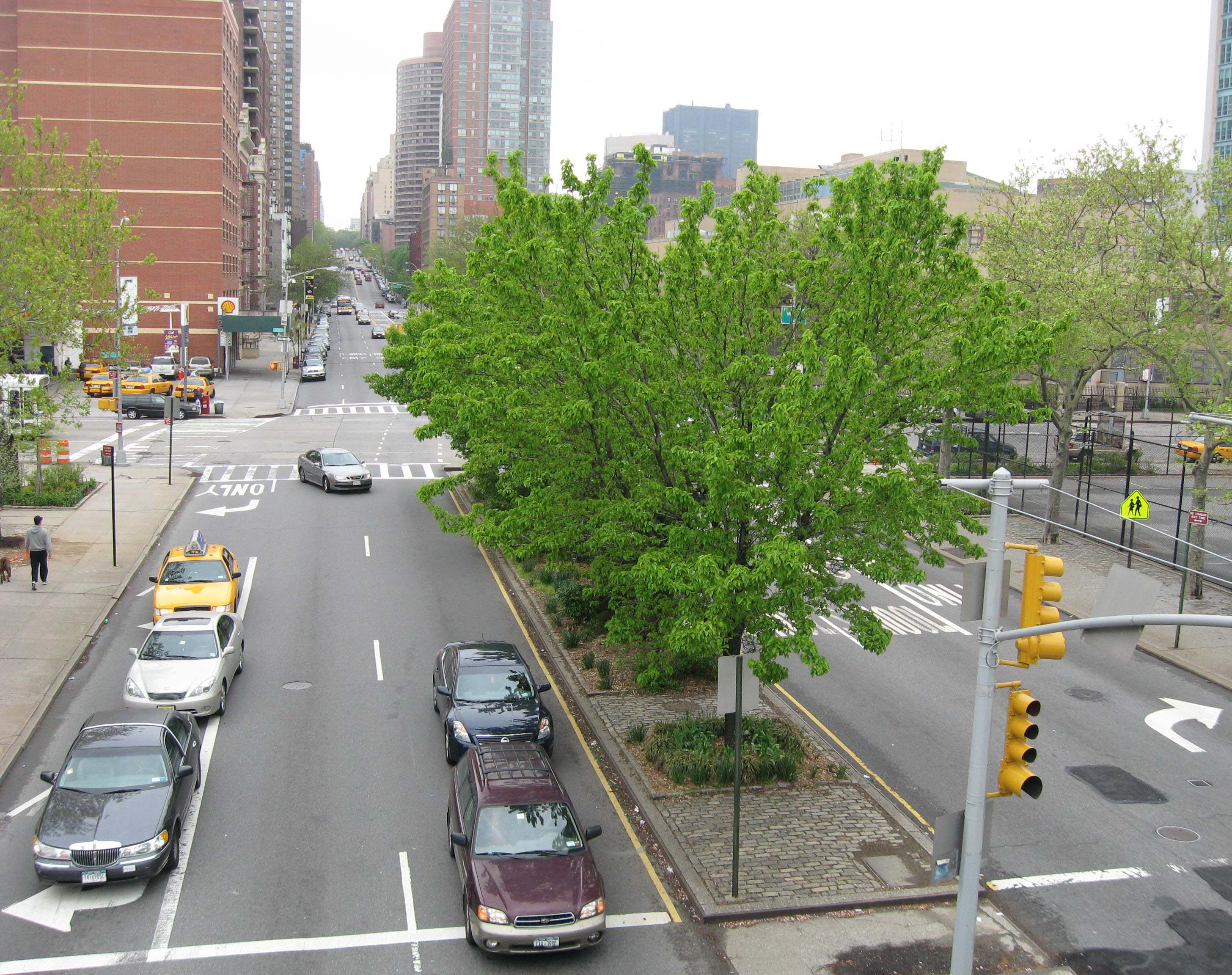 Looking northwest and down 96th Street from atop FDR Drive, above the vantage of Image:96ST1AVE.JPG during 5BBT on a cloudy late morning in springtime.